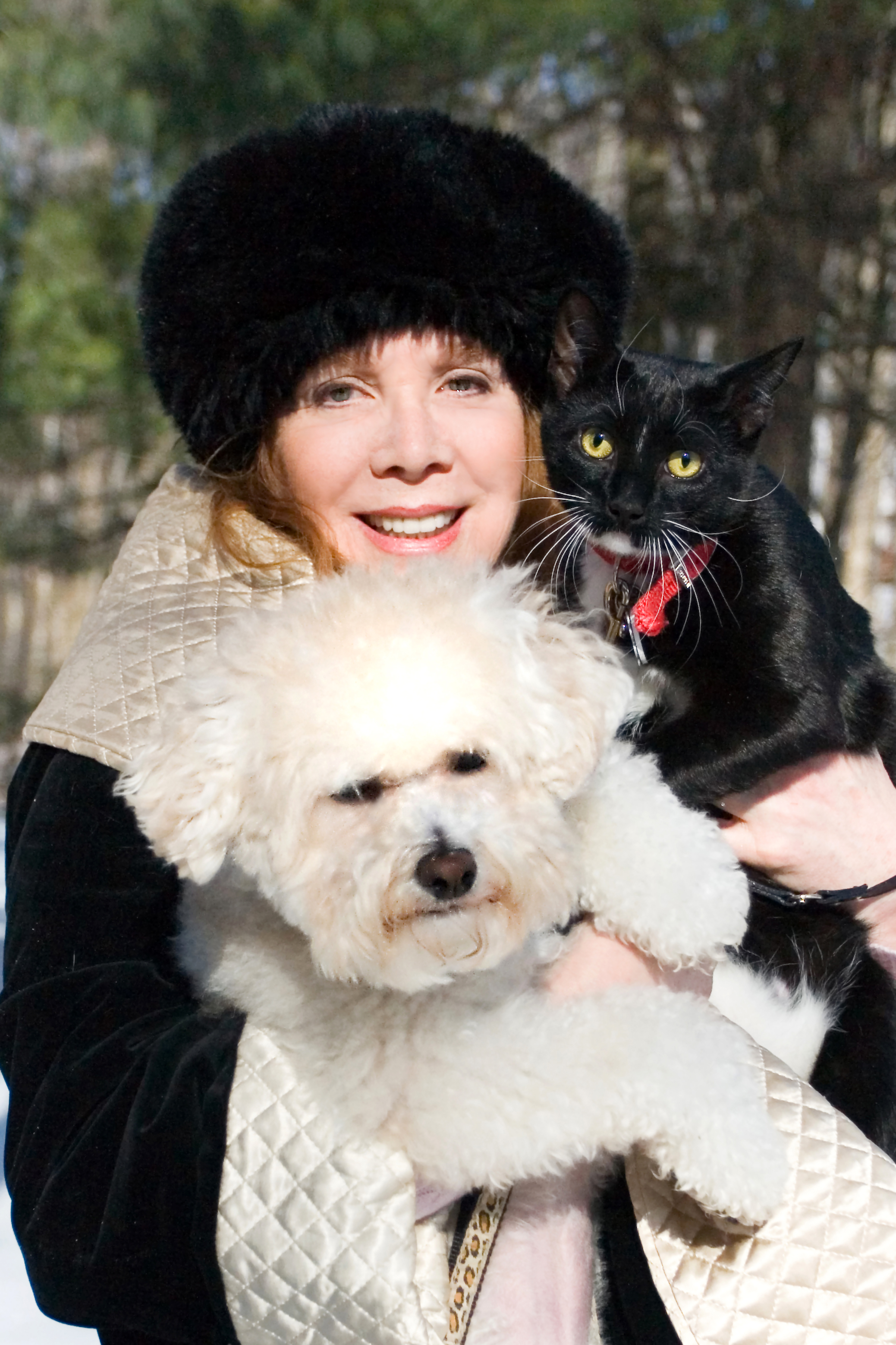 Attorney Rachel Hirschfeld and her beloved dog Soupbone.